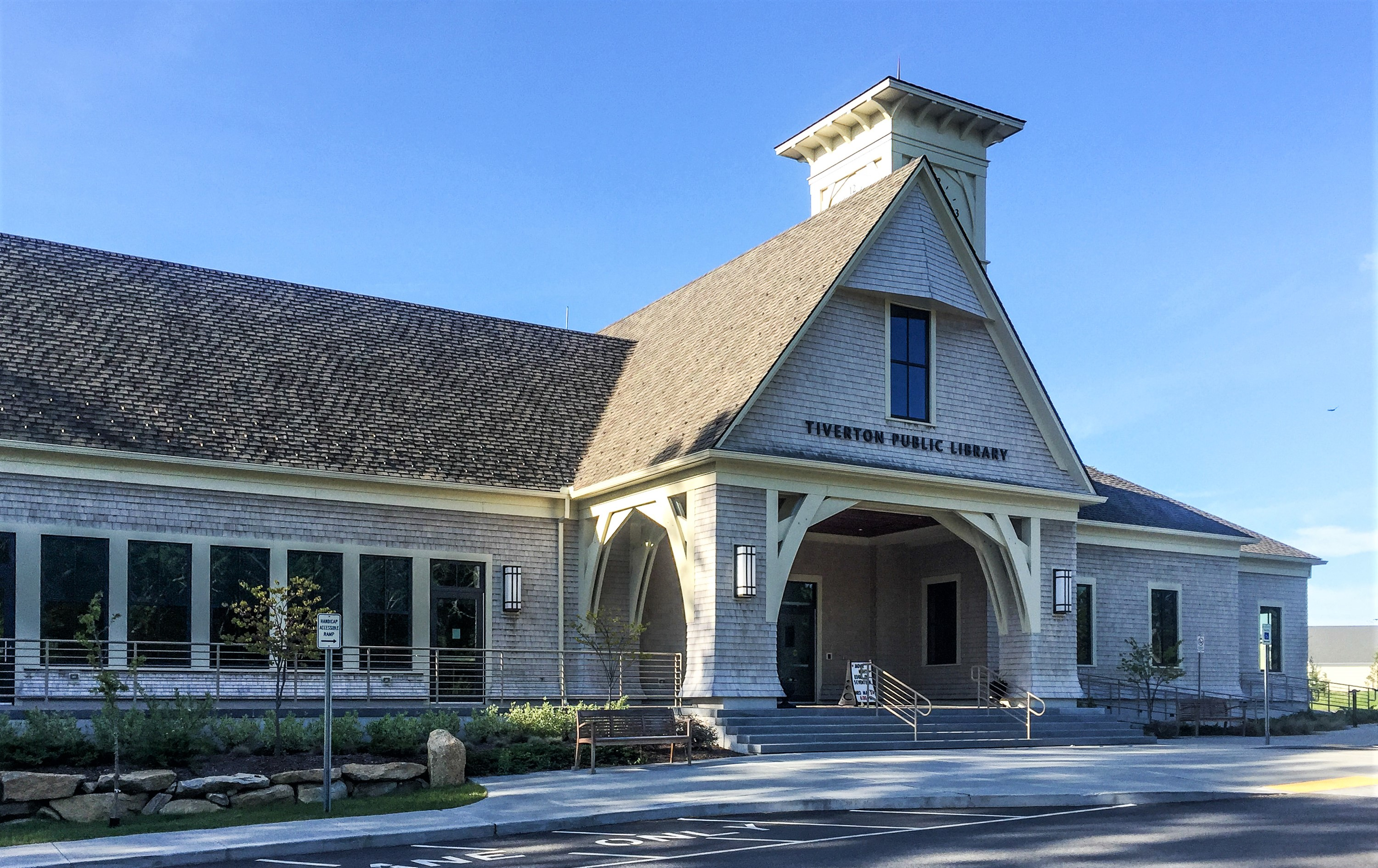 Tiverton (Rhode Island) Public Library. Opened in June 2015. Designed by Union Studio Architects of Providence, RI.